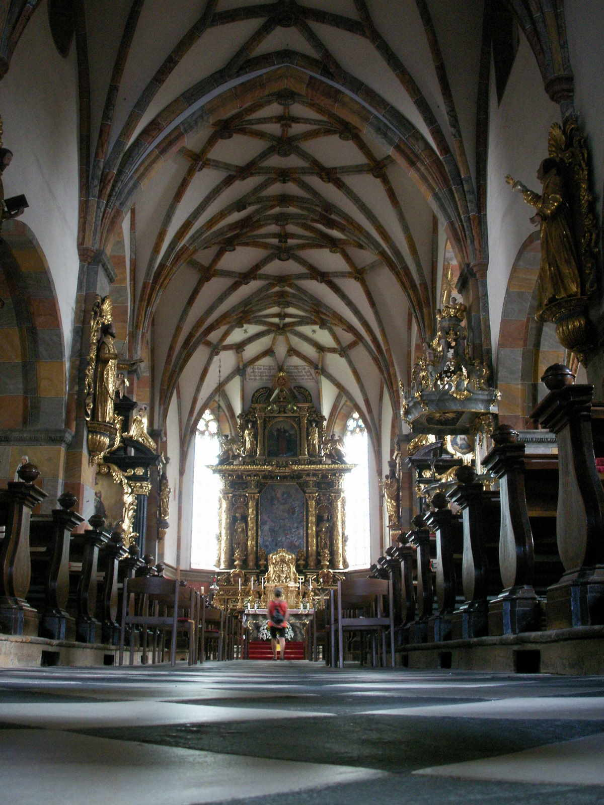 Church of the monestry of Millstatt district Spittal an der Drau in Carinthia / Austria / EU.